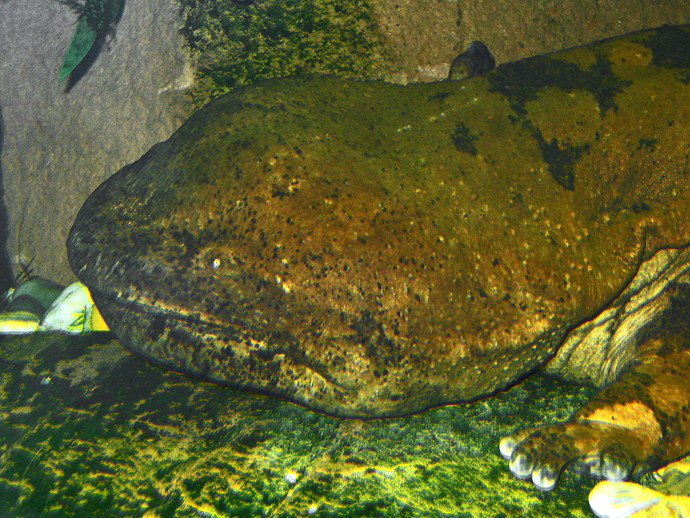 Andrias davidianus, Cryptobranchidae, Chinese Giant Salamander; Staatliches Museum für Naturkunde Karlsruhe, Germany.